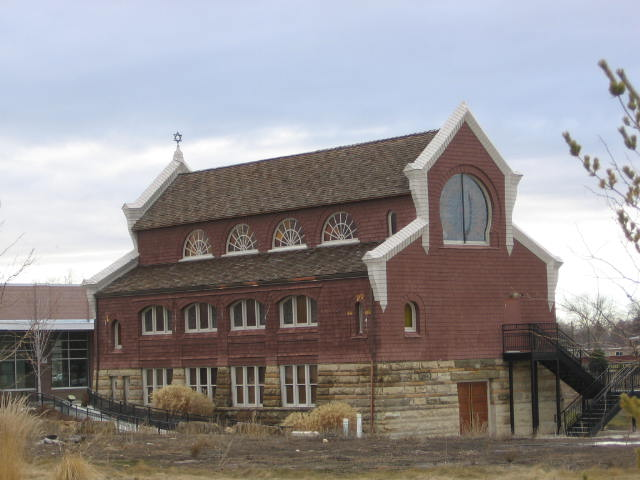 Ahavath Beth Israel Synagogue in Boise, Idaho.